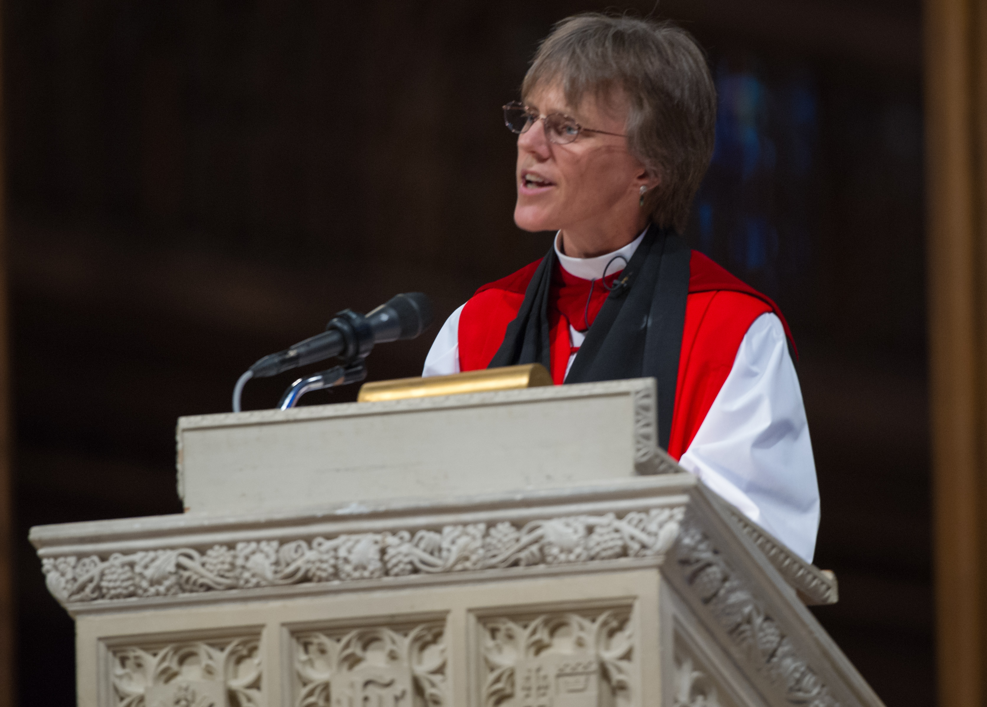 The Right Reverend Mariann Edgar Budde, bishop of Washington DC, delivers the homily during a memorial service celebrating the life of Neil Armstrong at the Washington National Cathedral, on Thursday, 13 September 2012. Armstrong, the first man to walk on the moon during the 1969 Apollo 11 mission, died aged 82 on Saturday, 25 August.